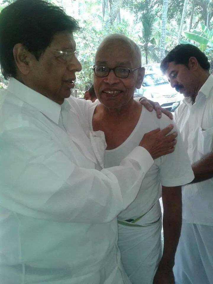 E Ahammed (Member of Parliament, India) meets Arimbra Bapu at his residence on the occasion of election campaign